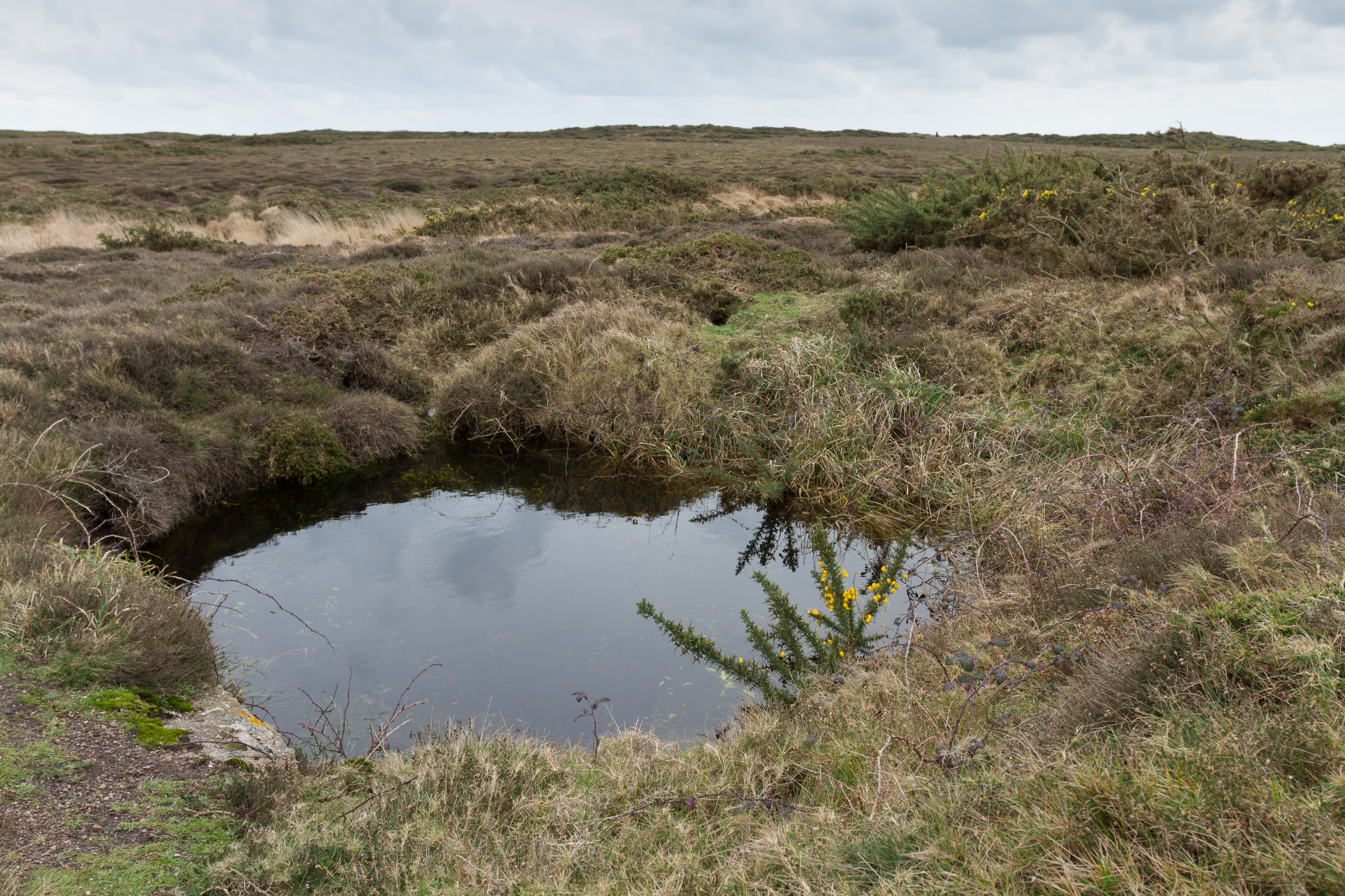 A small pond at Les Landes in St Ouen, Jersey.